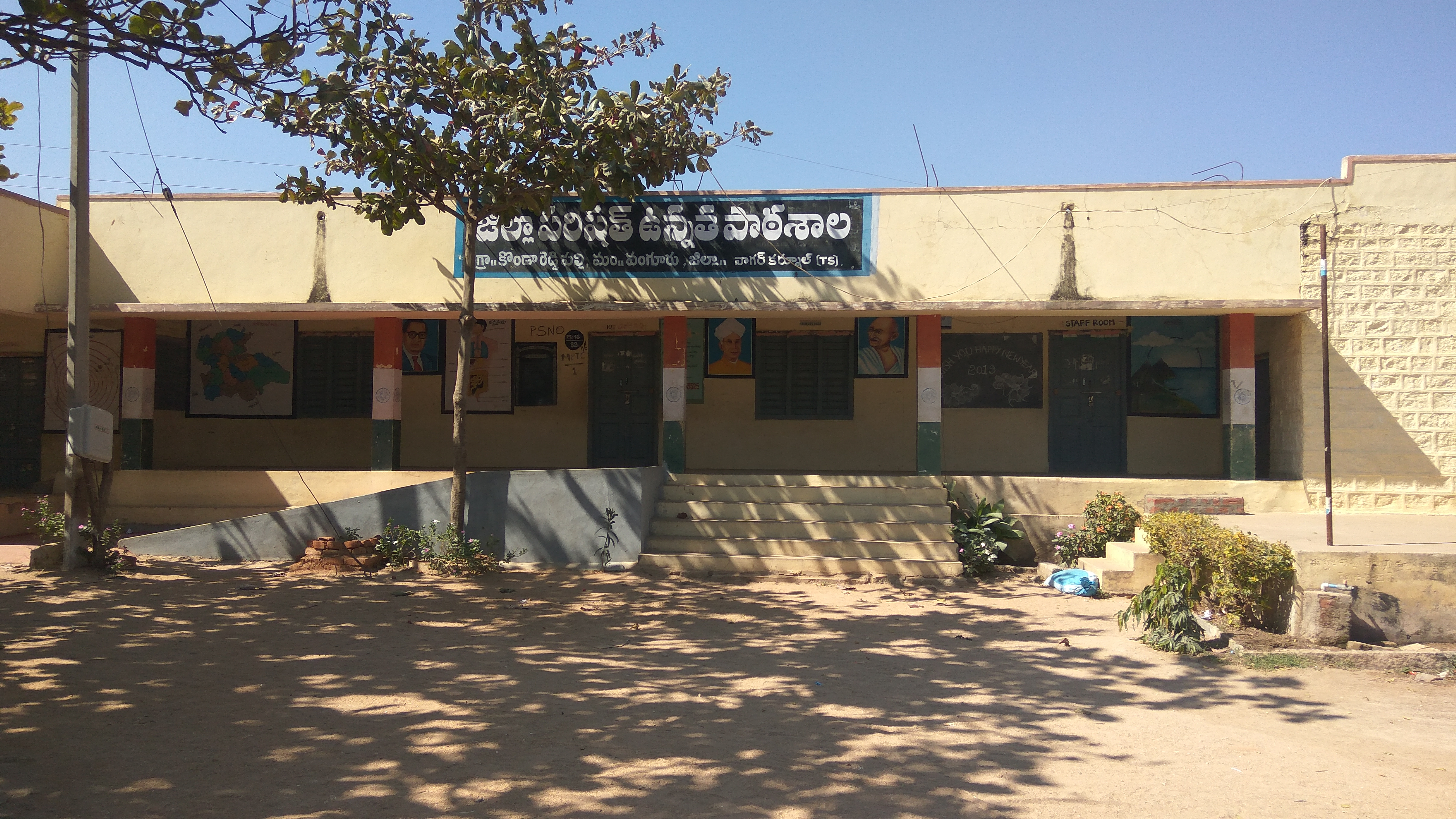 ZPHS School in Kondareddypalli Village, Vangooru Mandal, Nagar Karnool District Telangana State